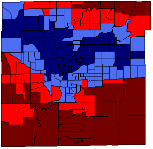 Self-created image showing neighborhood results of 2007 Indianapolis Mayoral election.